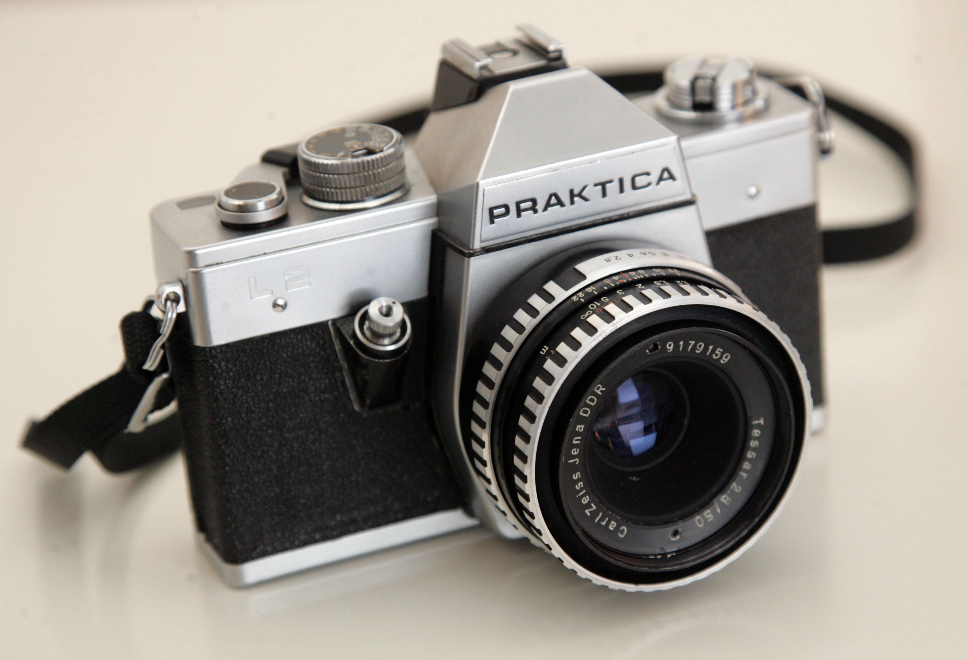 35-mm SLR camera 'Practica L2' by Pentacon, East Germany. Wiew from the front side.